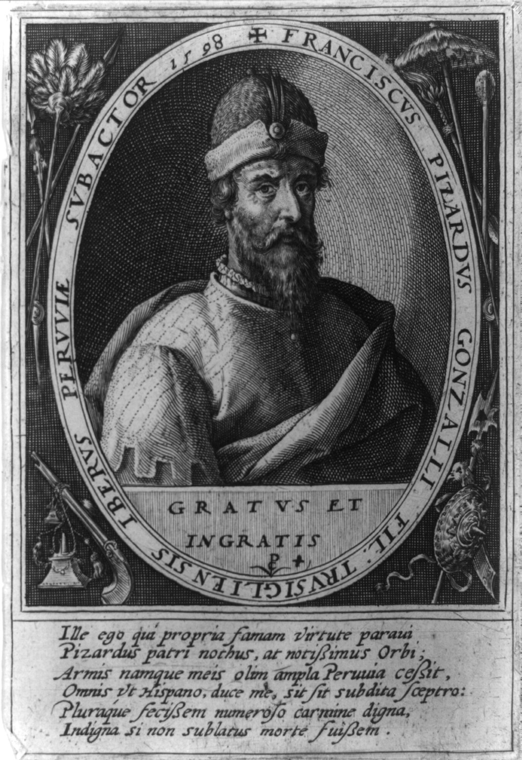 Title: Pizzaro, Francisco, 1598- Abstract/medium: 1 print : engraving.